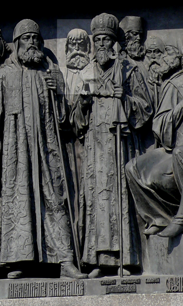 Fiodor Rtishev on the Monument «Millennium of Russia» in Veliky Novgorod